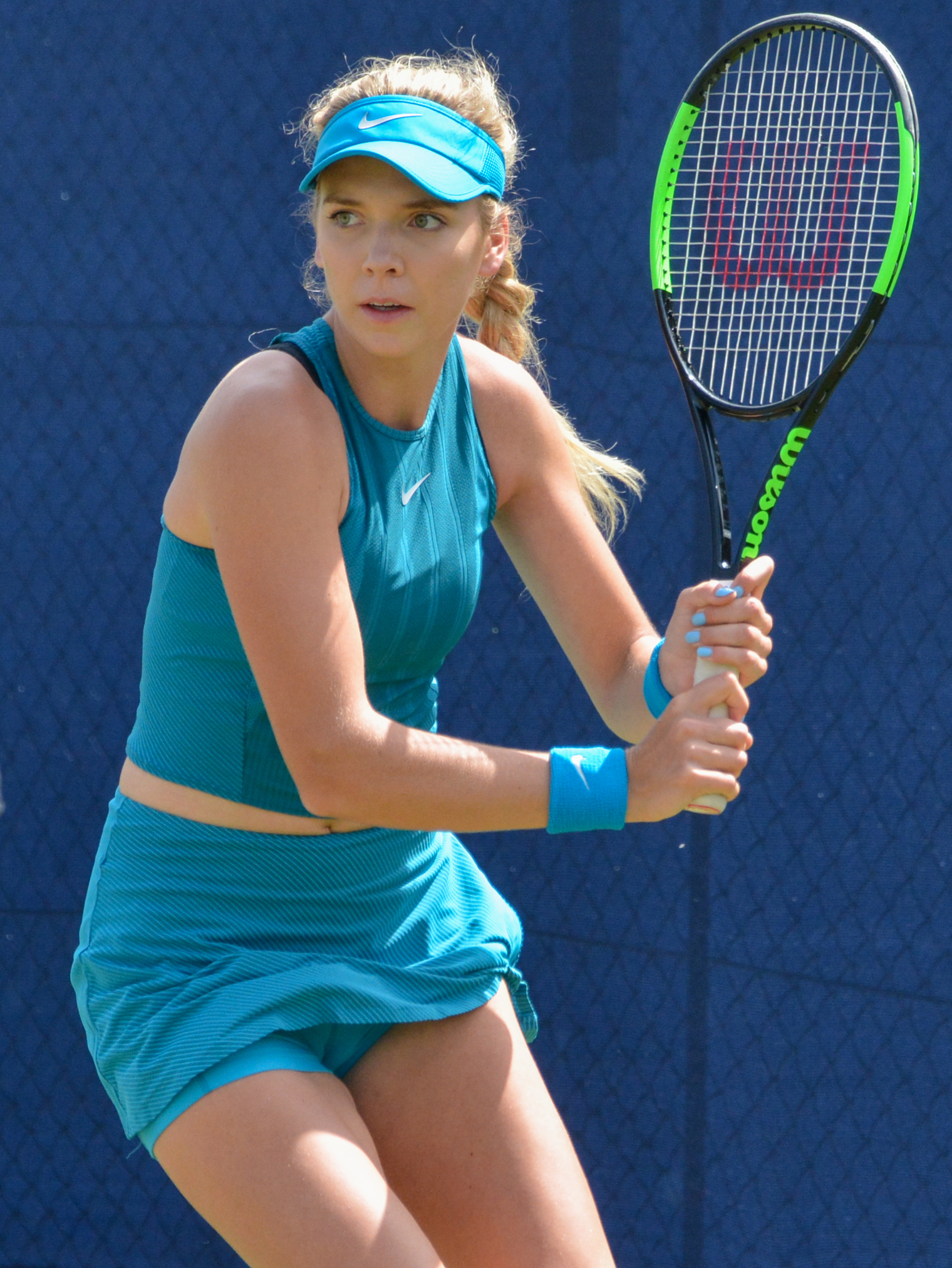 Surbiton Trophy, June 2018.